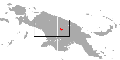 Telefomin Roundleaf Bat (Hipposideros corynophyllus) range